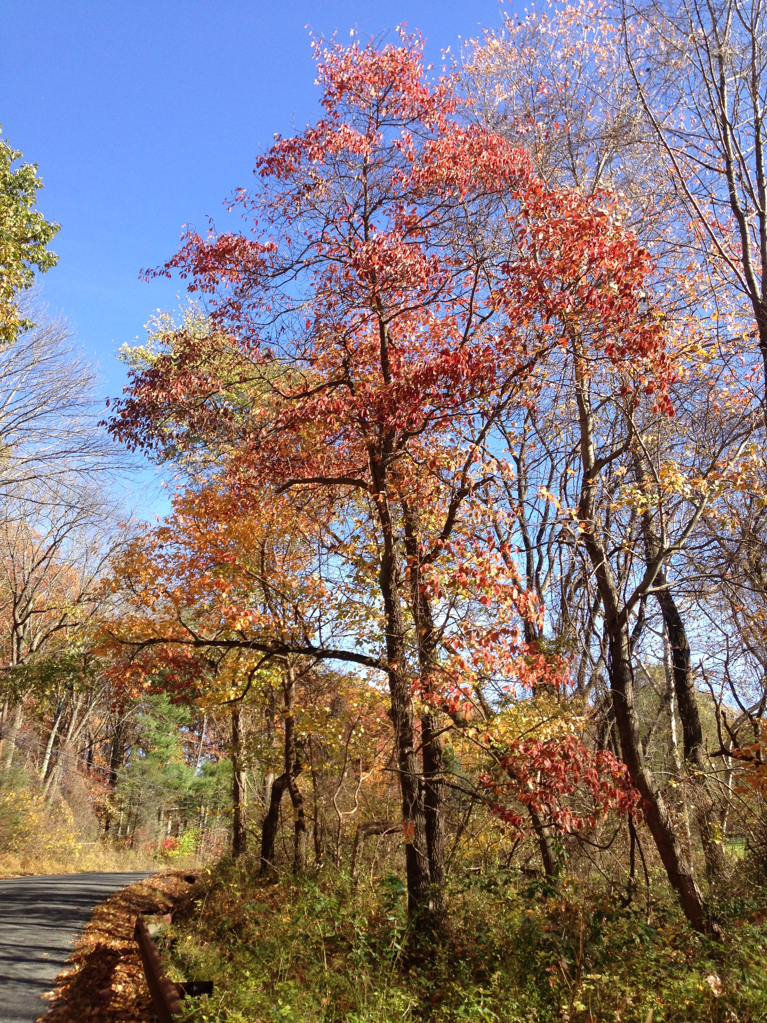 Flowering Dogwood during autumn along Pleasant Valley Road in Hopewell Township, New Jersey